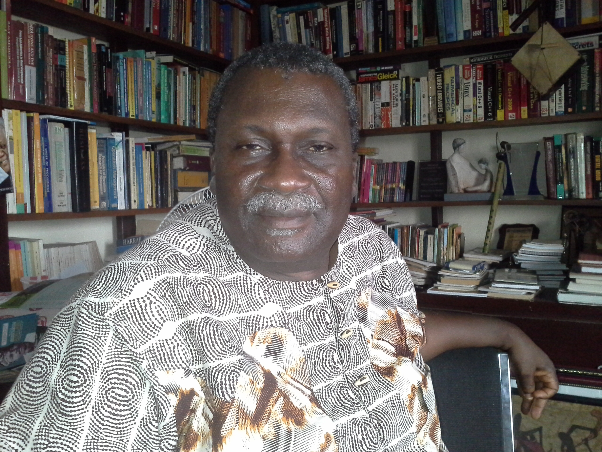 Tunde Adegbola at his office in Ibadan, Nigeria